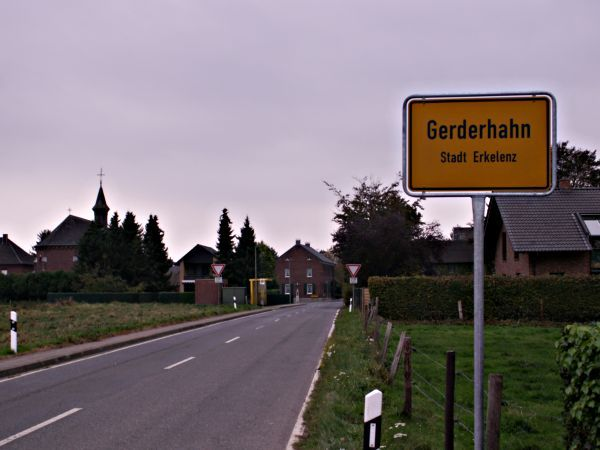 own work